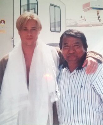 Losang Thonden with International superstar Brad Pitt on the set of Seven Years in Tibet.